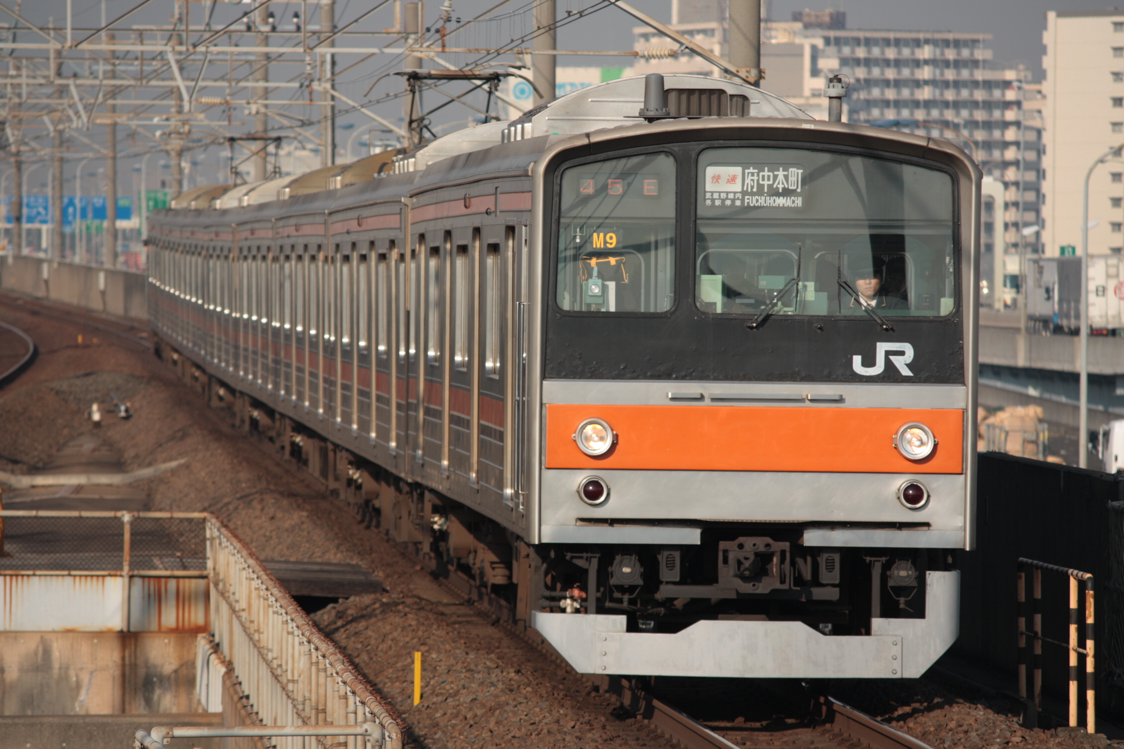 A Musashino Line 205 series EMU approaching Maihama Station on the Keiyo Line